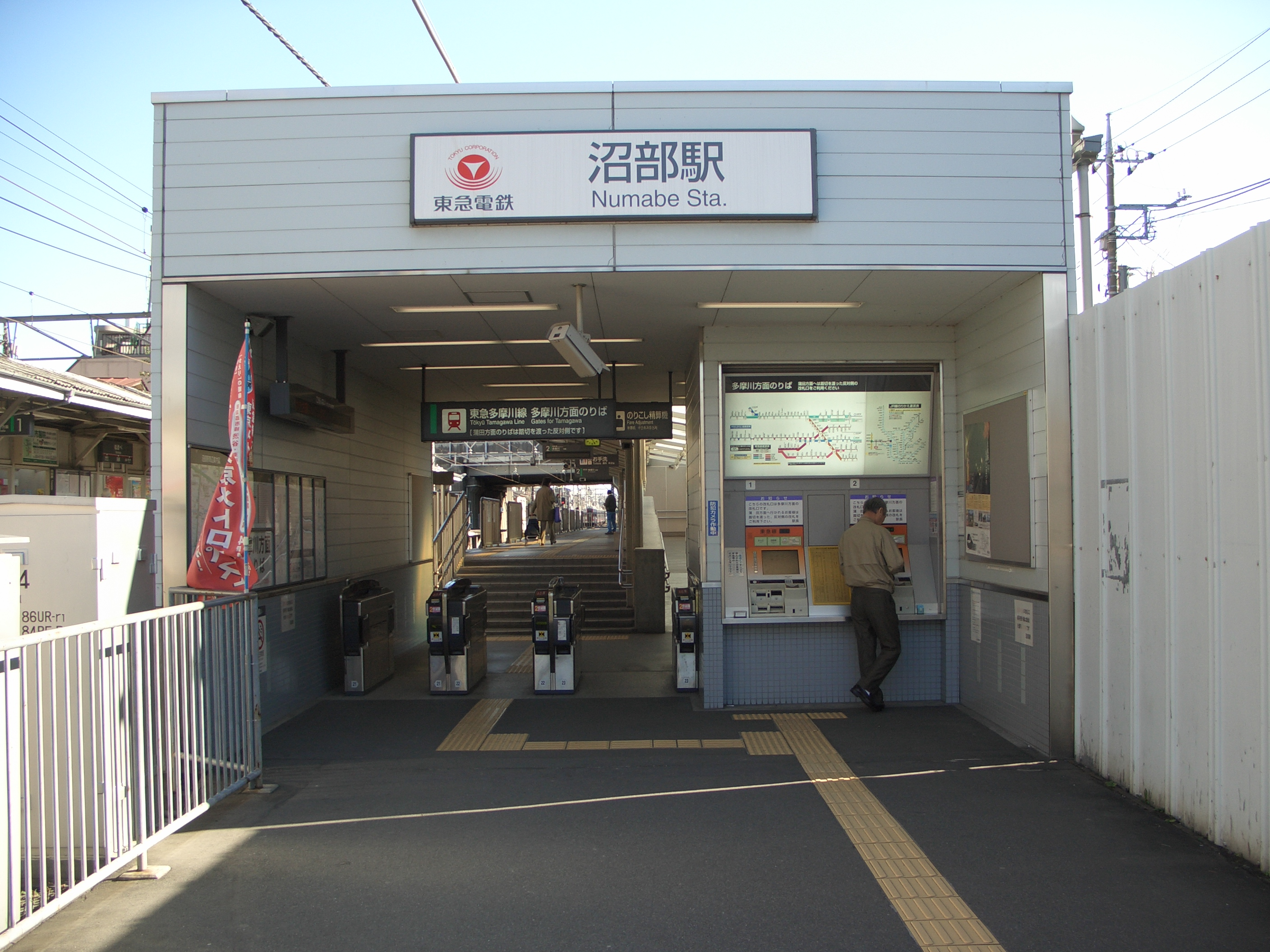 Description（説明）: Tokyu Tamagawa line Numabe Station for Tamagawa Gates（東急多摩川線 沼部駅 多摩川方面のりば入口） Source（出典）: Tokyu Tamagawa line Numabe Station（東急多摩川線 沼部駅） Photographer/Painter（制作者）: yaguchi（矢口） Date（製作日）: 2006-11-12